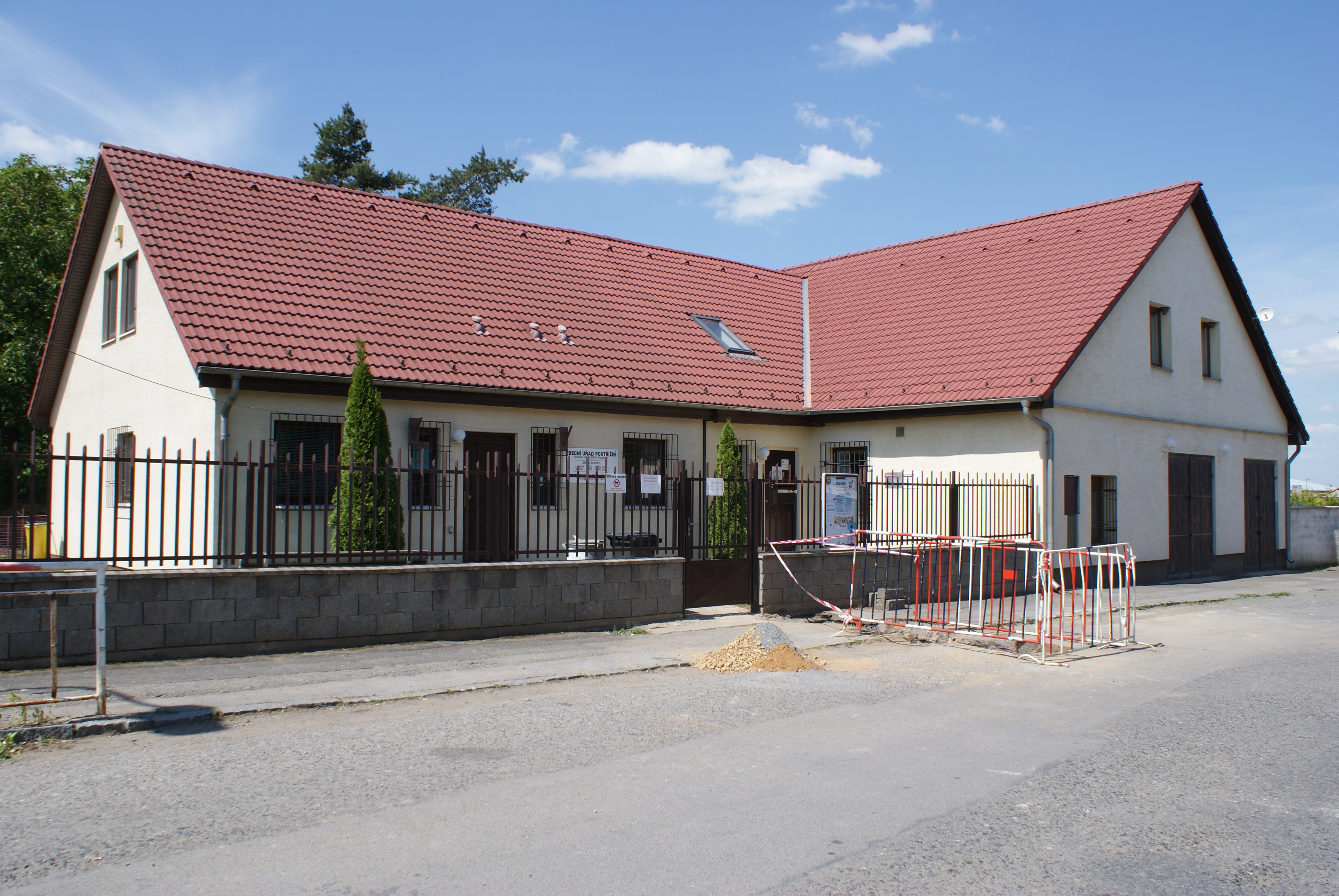 Former synagogue in Postřižín, Mělník district, Czech Republic, today a municipality. Česky: Bývalá synagoga v Postřižíně okres Mělník, dnes obecní úřad